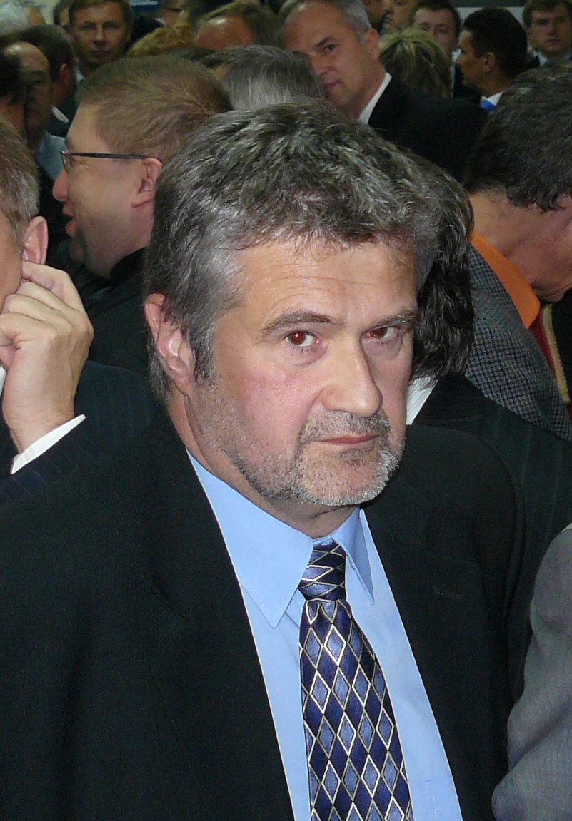 Marek Zieliński - member of Sejm (2007-) from Poznań